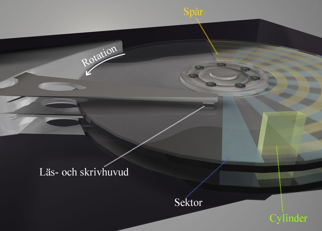 Cinema 4D-rendered image of a hard disk drive, with the drive's logical parts described in Swedish.